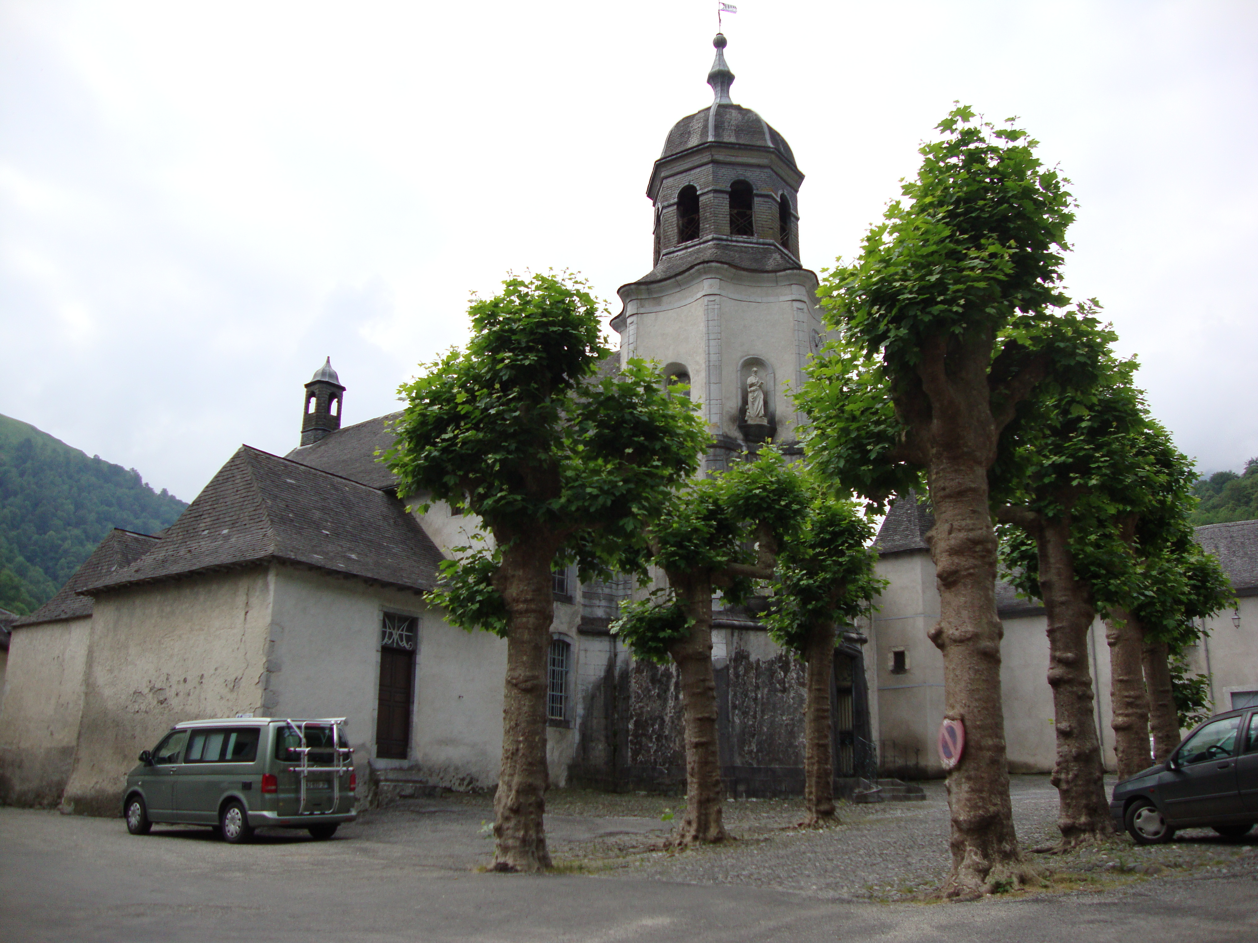 Sarrance (Pyr-Atl, Fr) Notre-Dame church